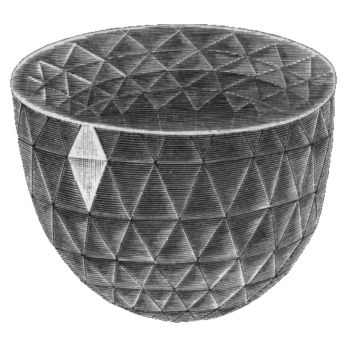 Great Mogol Diamond